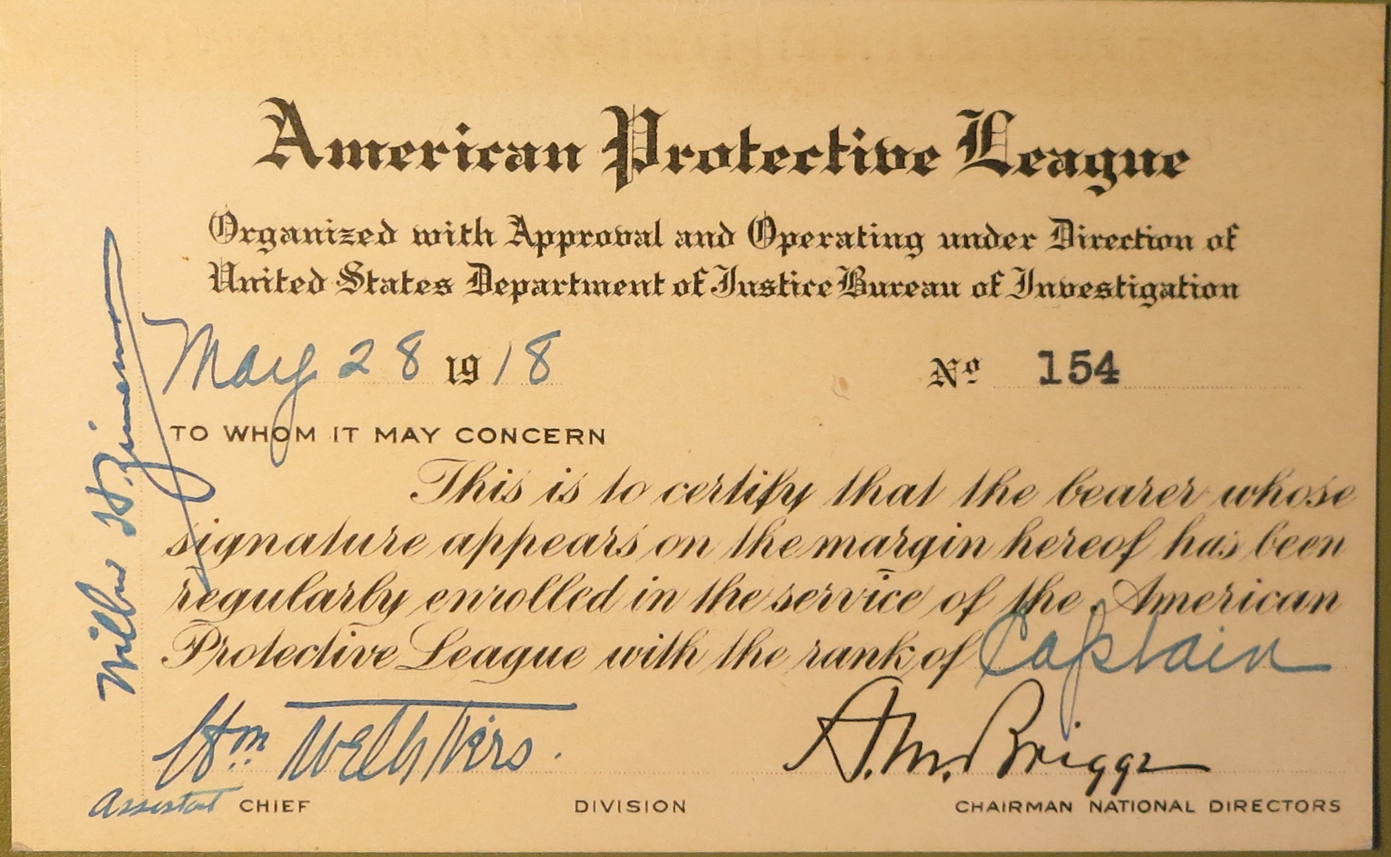 A membership card in the American Protective League, issued 28 May 1918.